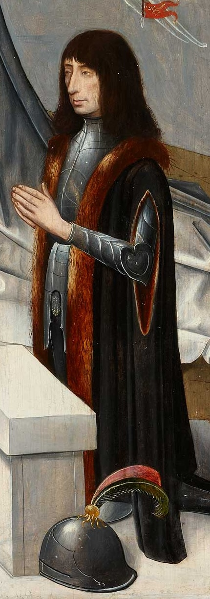 First Duke of Alba de Tormes